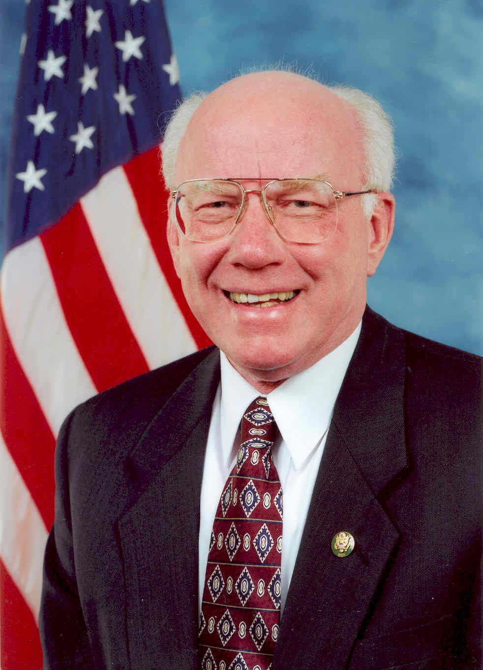 Vern Ehlers, member of the United States House of Representatives.